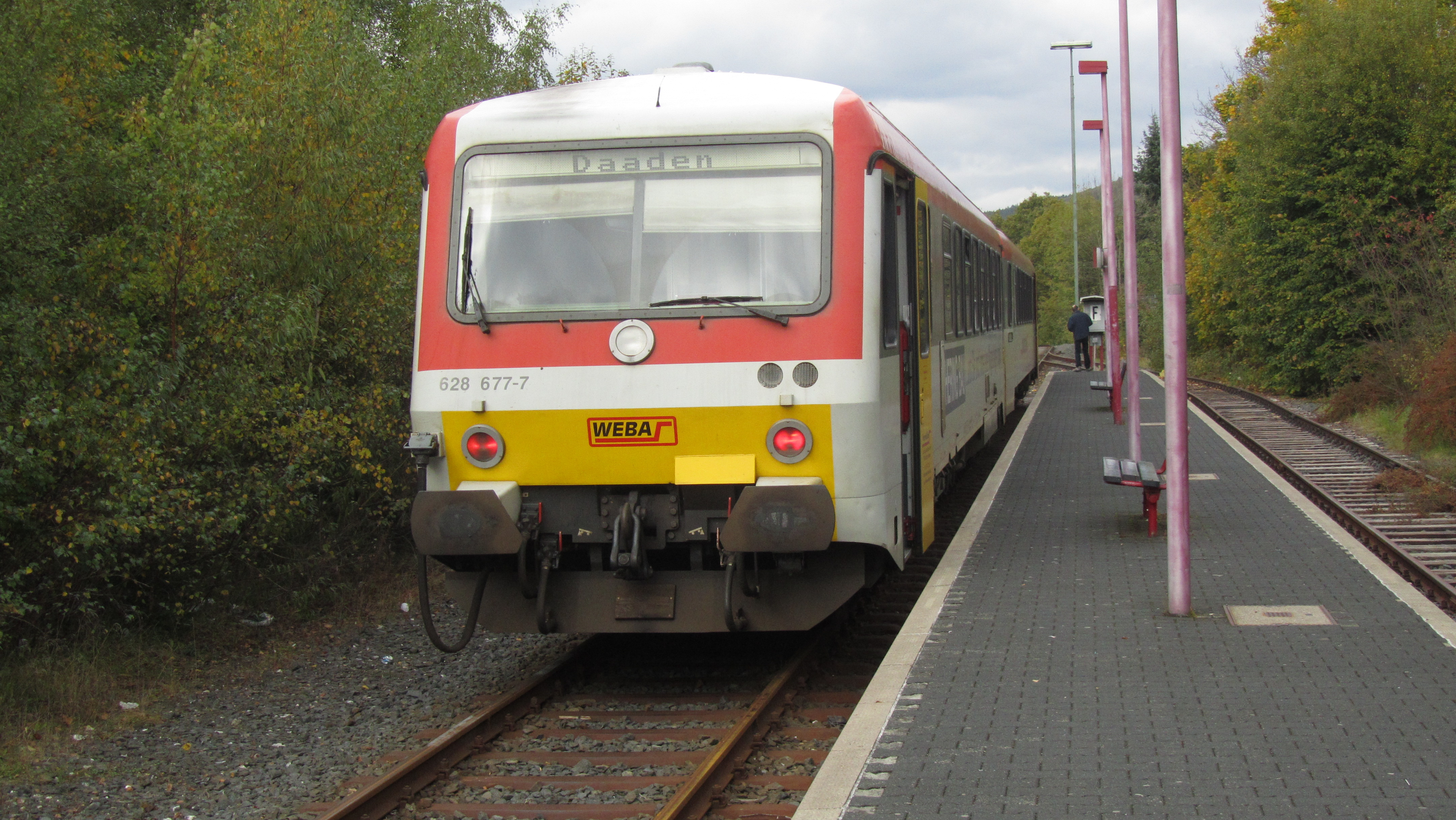 Regional Train (Daadetalbahn) in Daaden station